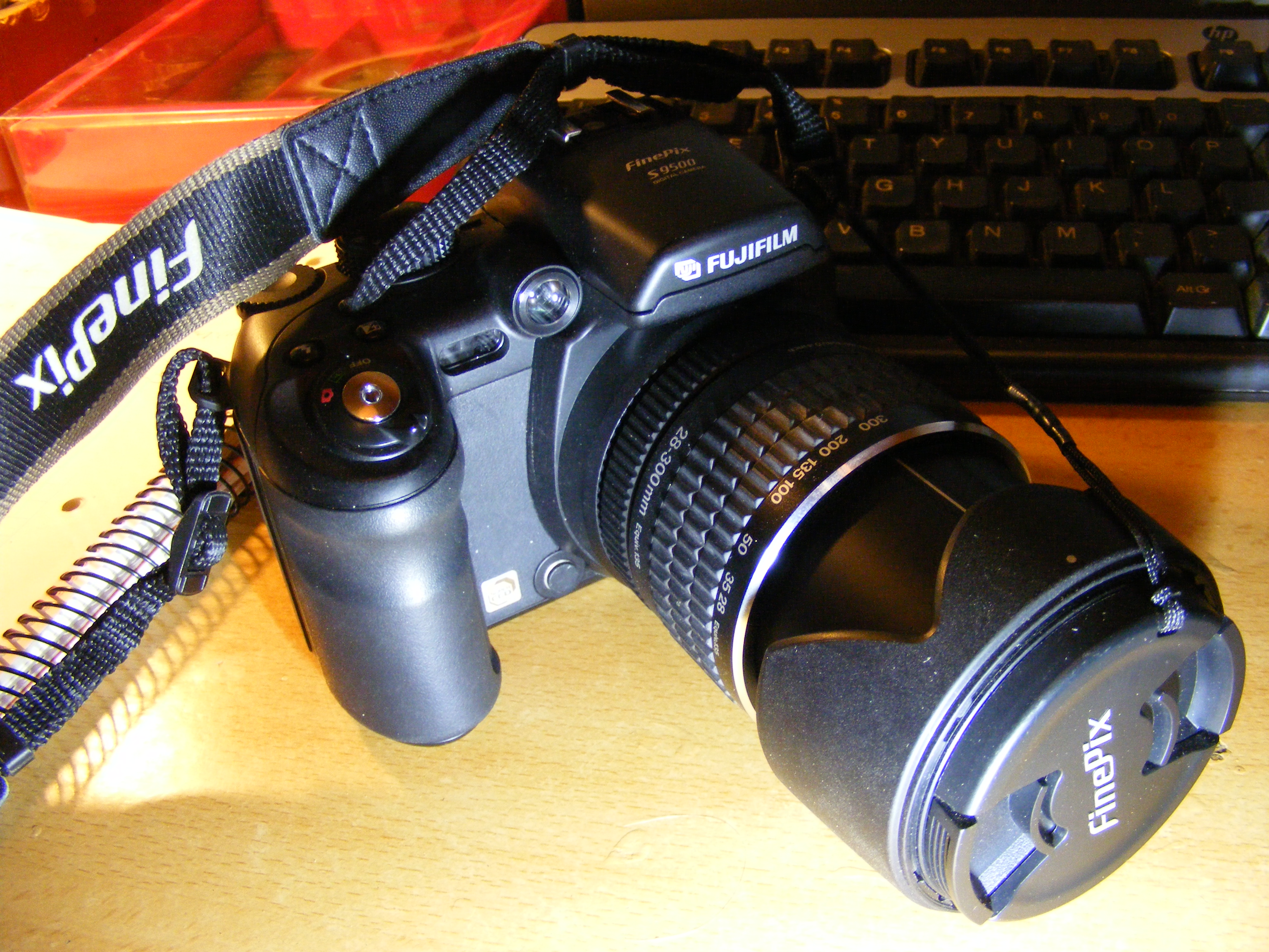 A view of the camera Fujifilm S9500